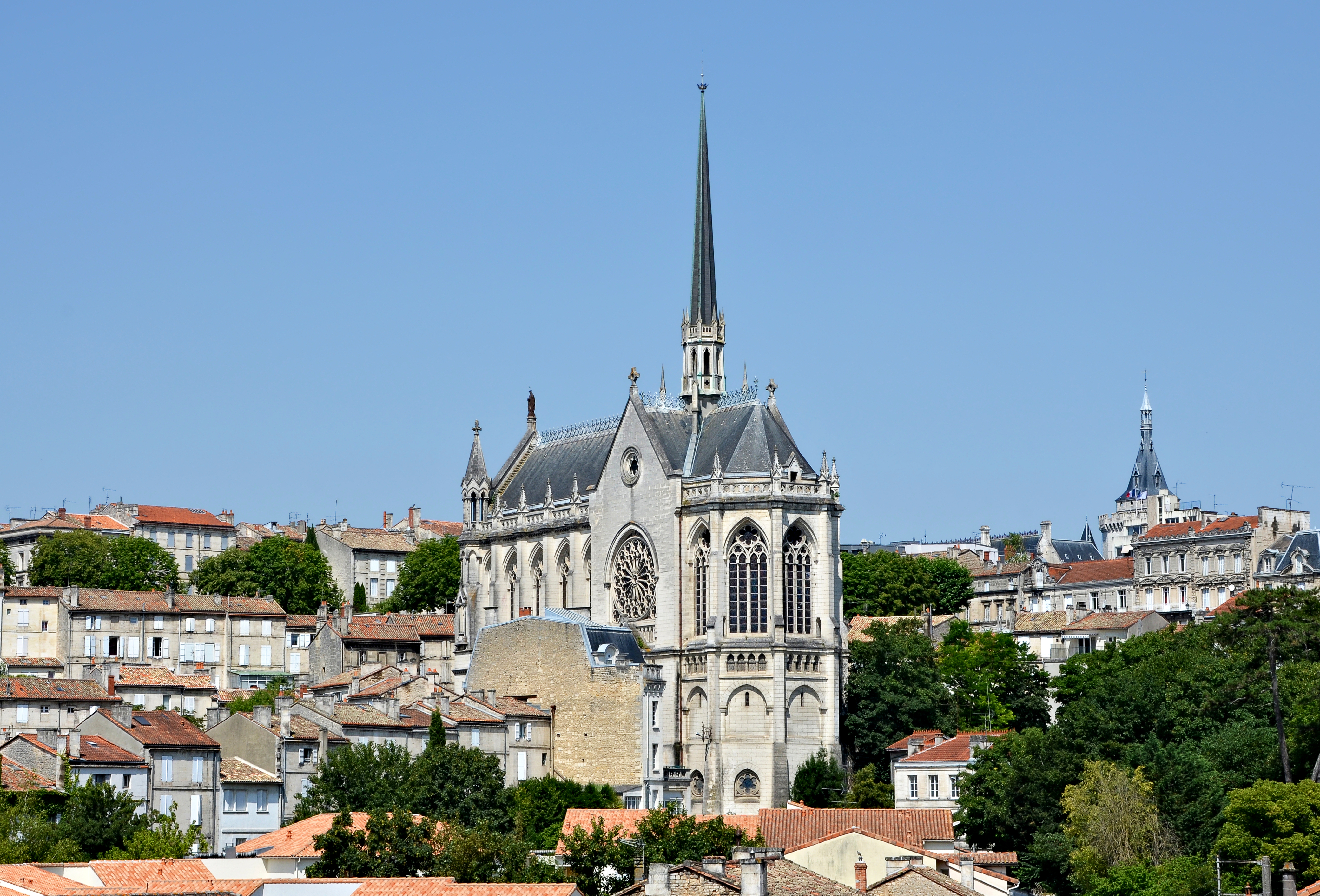 Roofs, church of Obézine and Beffrey of the city hall, Angoulême, Charente, France.